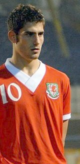 Ched Evans; image cropped from File:Ramsey101.jpg.